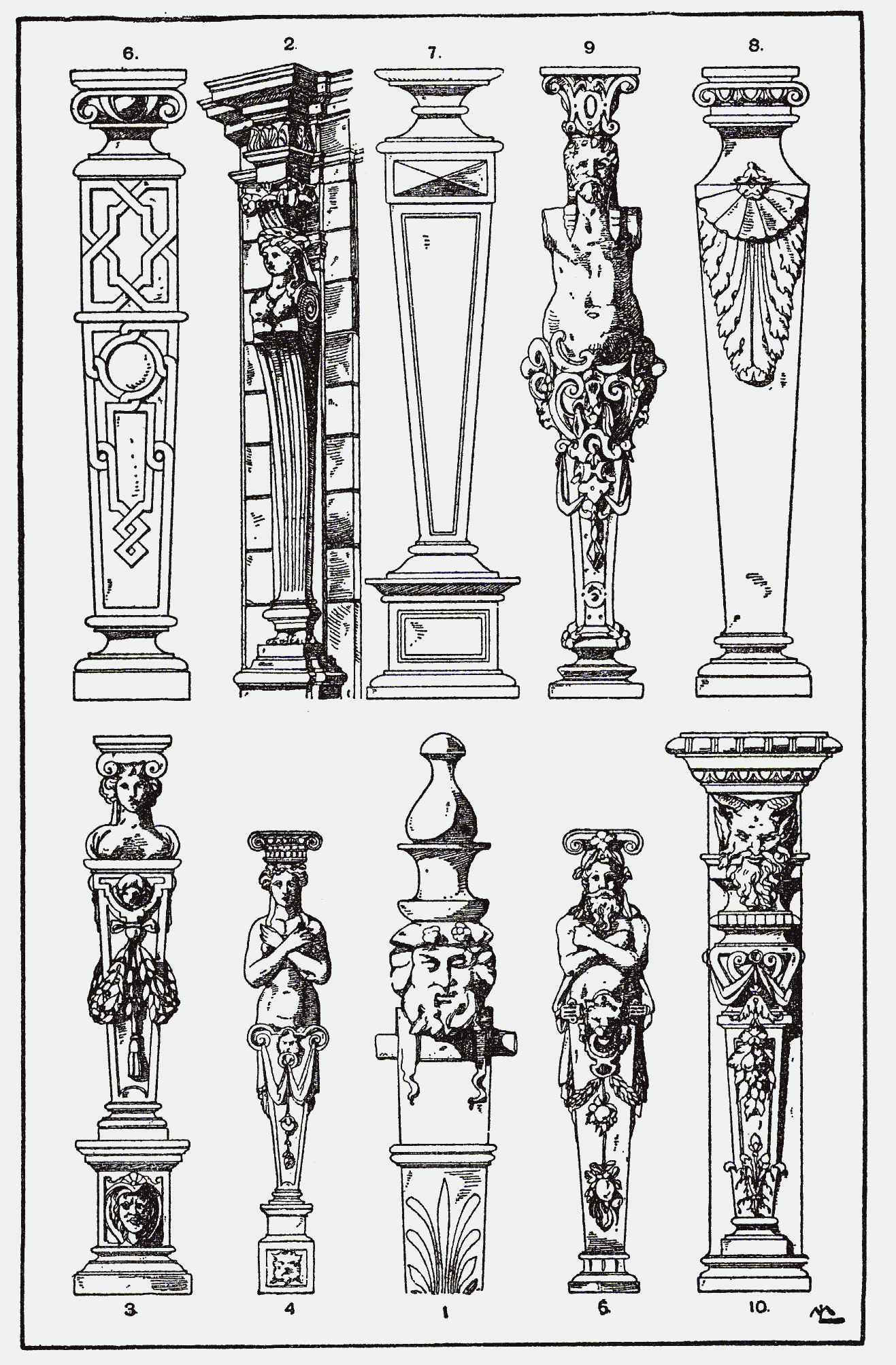 The Terminus (Plate 139.) The Terminus is a pilaster-like support, the fundamental form of which is characterized by tapering downwards in a manner recalling an inverted Obelisk. The name is derived from the fact that similar constructions were used in the Antique as milestones and to mark the Terminations of fields, &c. The Terminus consists of the profiled base, not infrequently supported on a special pedestal (figs. 3 and 7); the shaft tapering downwards and usually ornamented with festoons (figs. 3, 4, 5, 10); and the capital, which is often replaced by a bust or half-figure (figs. 4, 5, 9). In this latter case, it assumes the appearence of a caryatid; and, as the bust is that of Hermes (the God of letters), this application is often termed a "Hermes". Standing isolated, it serves as a Pedestal for busts and lamps, as a Post for railings, and in gardens and terraces. The last was exceedingly popular in the Rococo period. Joined to the wall, the Terminus often takes the place of the pilaster. This is especially true of the furniture and small architectural constructions of the Renascence period. It is also not uncommon on Utensils, e.g. tripods, handles of pokers, seals, &c. [1]